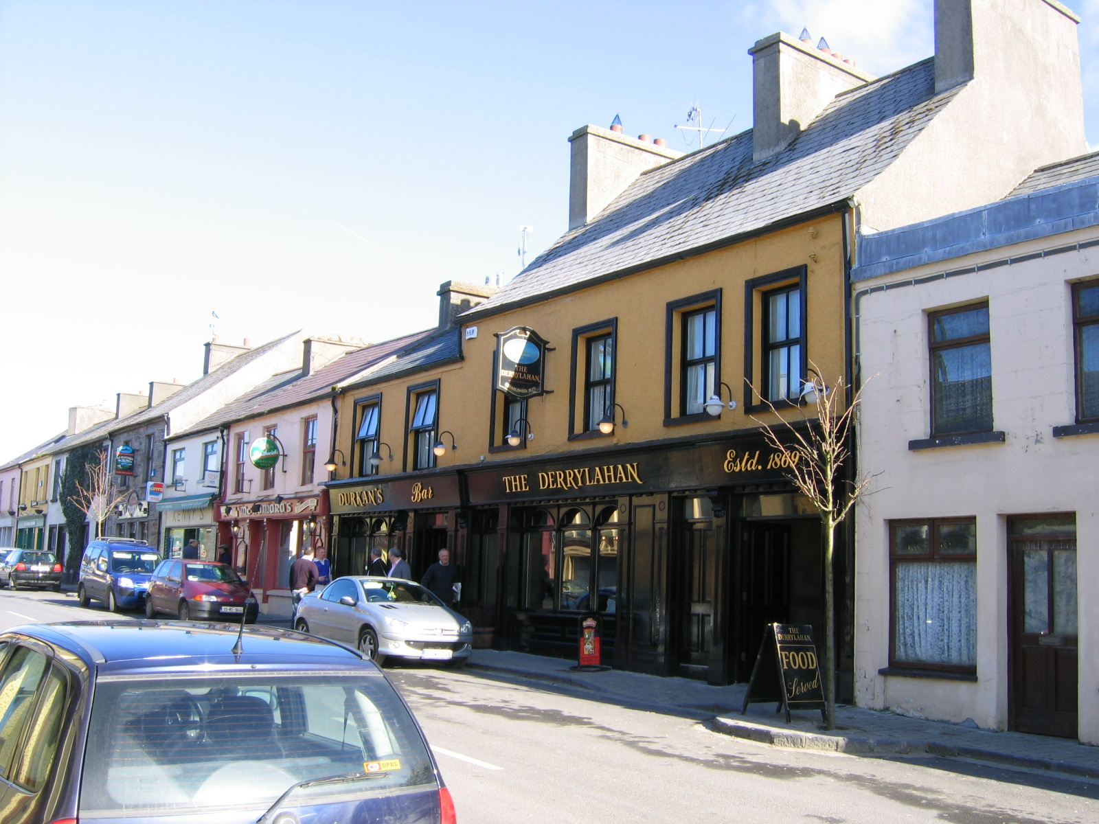 Louisburgh, County Mayo, Republic of Ireland.